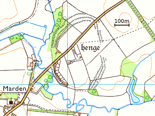 Simplified map of the Marden Henge earthwork in Wiltshire, England. Based on Ordnance Survey maps, available under the Ordnance Survey OpenData Licence.